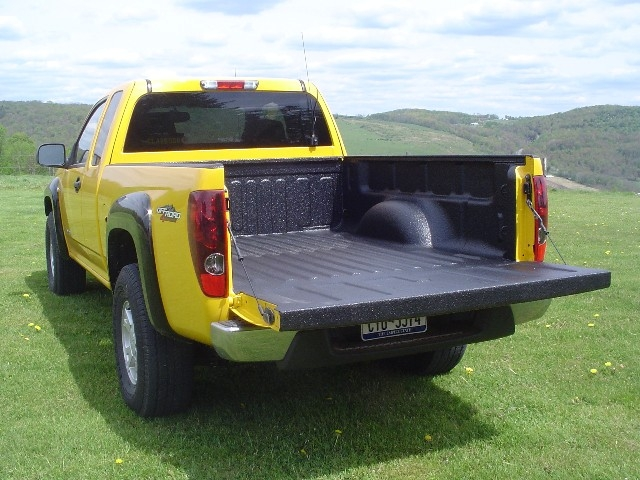 Truck bed liner using permanent ArmorThane polyurethane spray-on protective coating